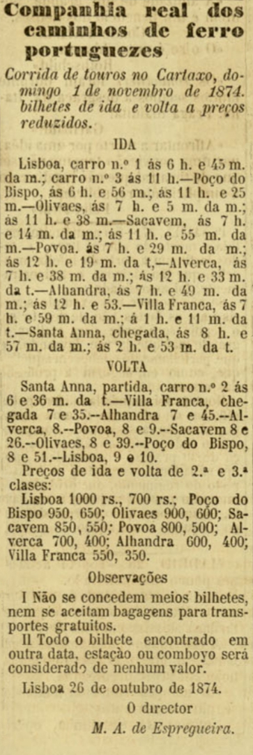 Advertisement of the Companhia Real dos Caminhos de Ferro Portugueses (Royal Company of the Portuguese Railways), for return tickets at special prices to the Santa Anna station (future Santana - Cartaxo), for a bullfighting event in Cartaxo. This image was published on the Diario Illustrado newspaper No. 752, of 30th October 1874, and scanned by the Biblioteca Nacional de Portugal.